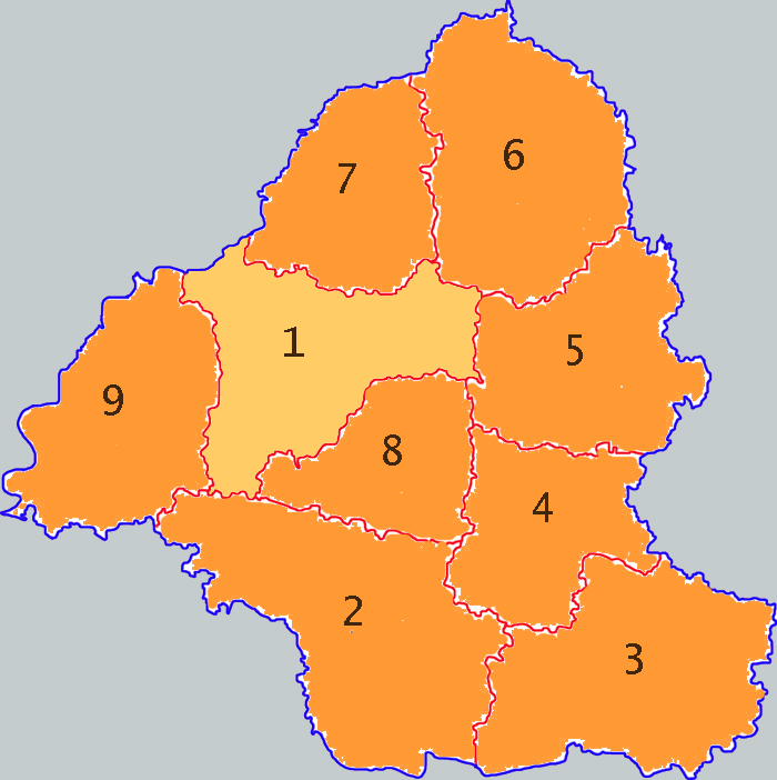 Municipalities of Heze city in Shandong province, China